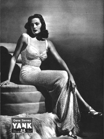 Pin-up photo of Gene Tierney for the May 25, 1945 issue of Yank, the Army Weekly, a weekly U.S. Army magazine fully staffed by enlisted men.